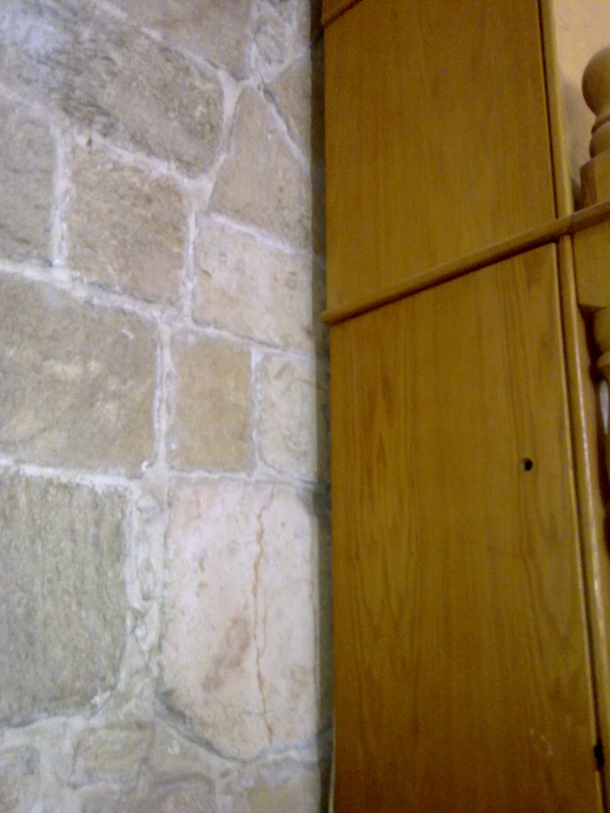 Al-Aqsa Mosque